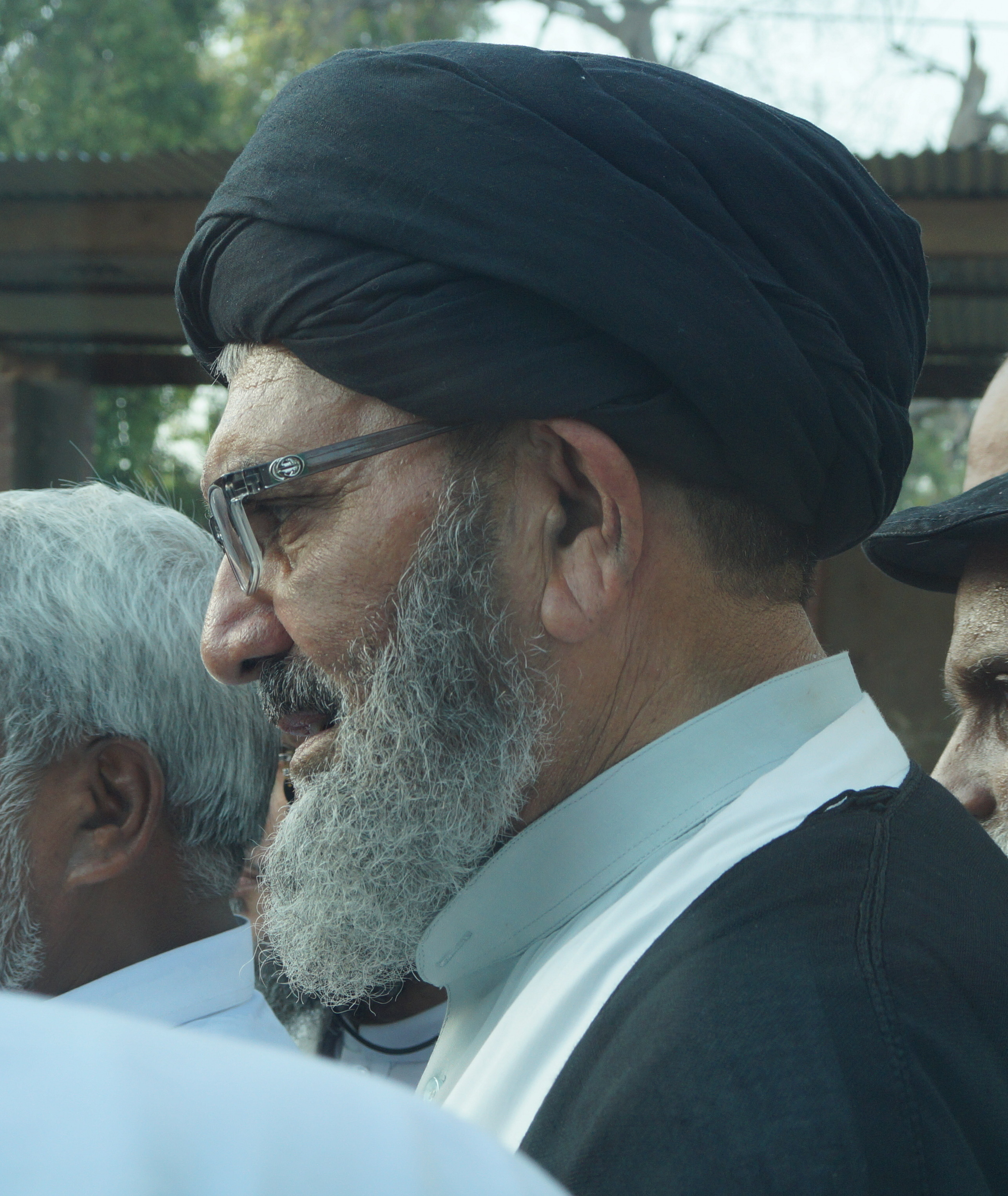 This was taken outside the Sahiwal Press Club, Where there was a press conference with the media.